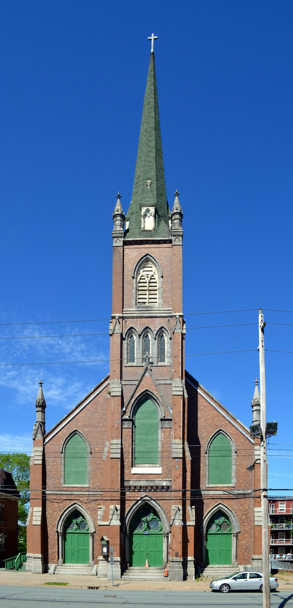 Saint Patrick's Church. Brunswick Street, Halifax, NS, Canada.